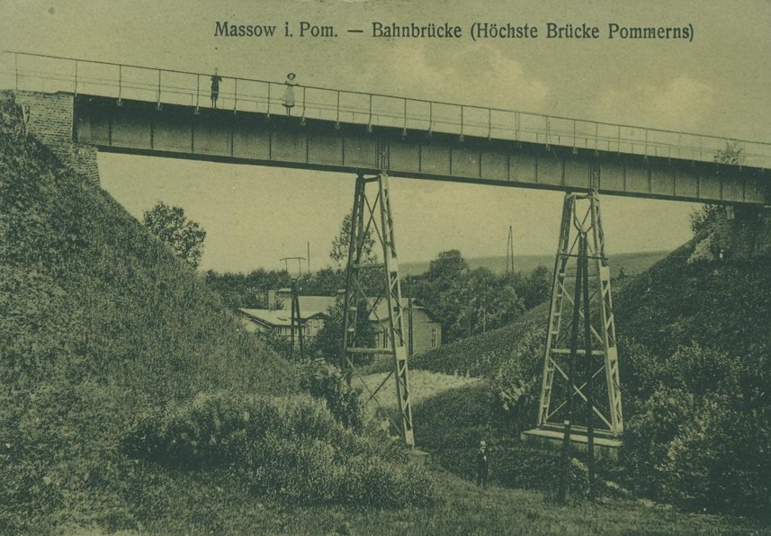 Massow in Pommern